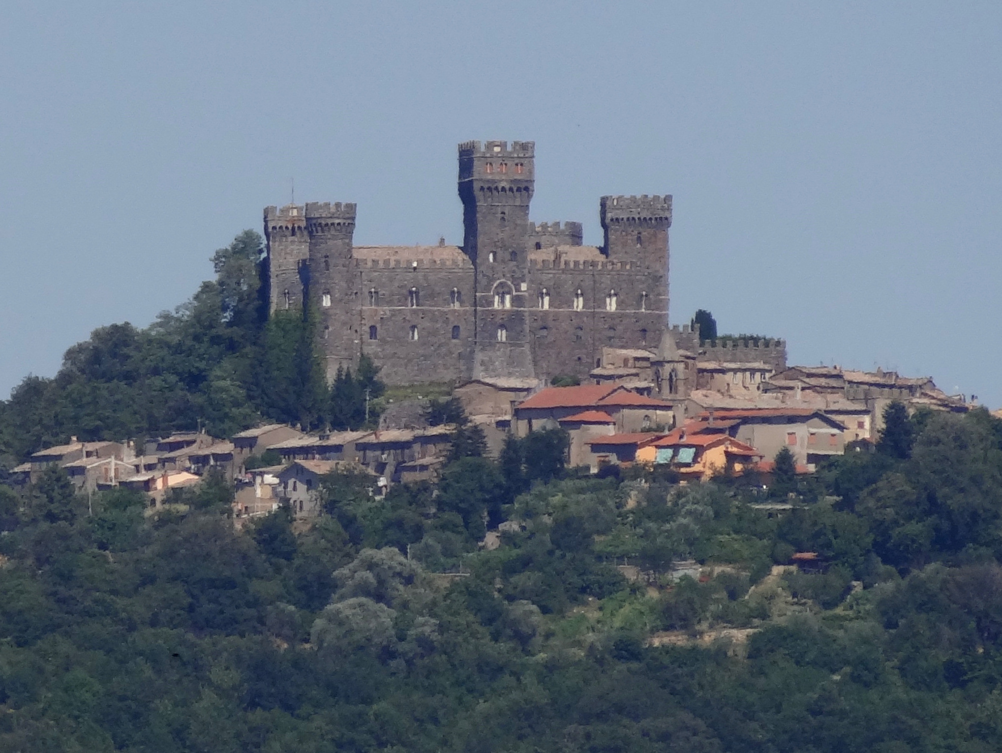 Torre Alfina, near Acquapendente in Lazio, Italy, photographed from afar. The tower was built by the Lombard king Desiderius.